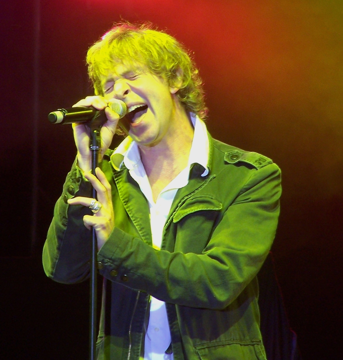 Peter Freudenthaler of German pop band Fools Garden at an open air concert in Dresden, Germany